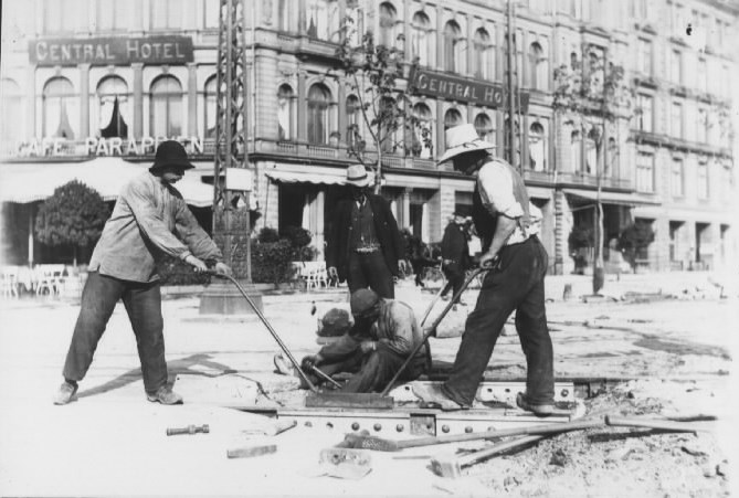 Tram workers grinding and cleaning tracks outside Central Hotel (Centralhotellet) with Café Paraplyen, defunct and demolished hotel at Rådhuspladsen 16-Vesterbrogade 2A, Copenhagen (1874-1934).